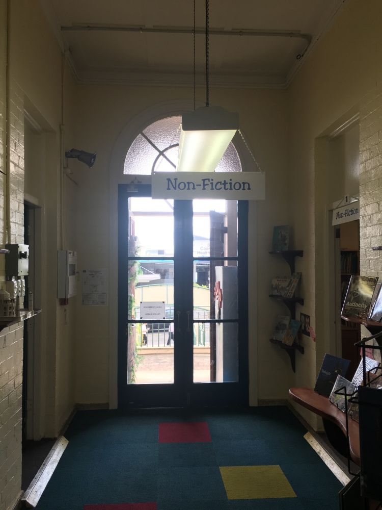 Block A main entry from S